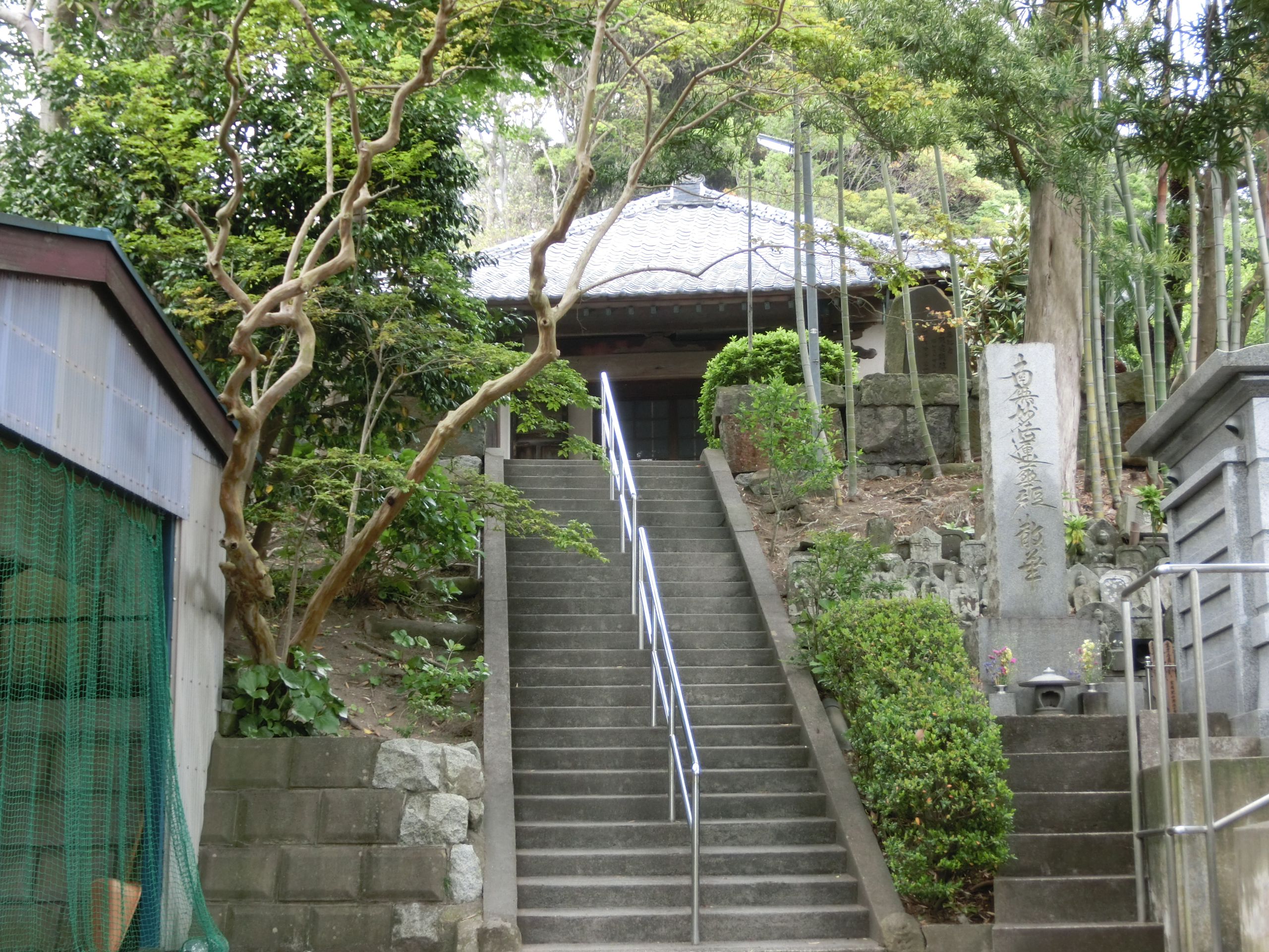 Hongyo-ji (Yokosuka)